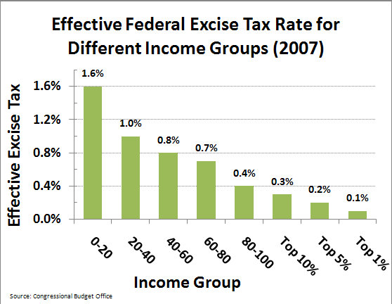 Effective federal excise tax rate by income group (2007); 1.) Excise taxes are the total taxes paid by a household throughout the year on all different federal excise taxes (e.g. federal gasoline tax, cigarette tax, airline tax, etc.) 2.) Income is the sum of wages, salaries, self-employment income, rents, taxable and nontaxable interest, dividends, realized capital gains, cash transfer payments, and retirement benefits plus taxes paid by businesses (corporate income taxes and the employer's share of Social Security, Medicare, and federal unemployment insurance payroll taxes) and employee contributions to 401(k) retirement plans. Other sources of income include all in-kind benefits (Medicare, Medicaid, employer-paid health insurance premiums, food stamps, school lunches and breakfasts, housing assistance, and energy assistance). 3.) Effective excise tax rate = excise taxes paid / total income